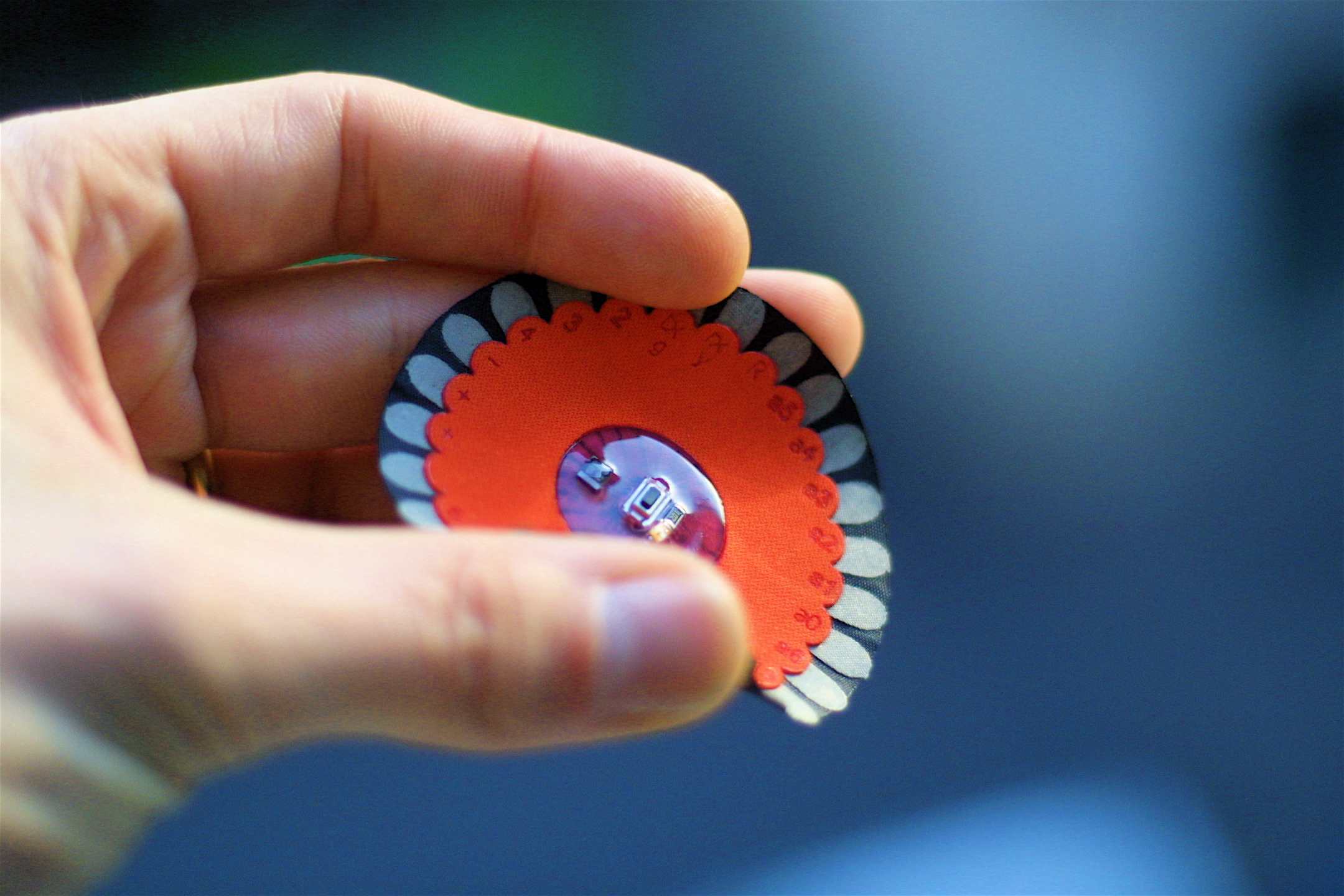 A flexible Lilypad Arduino, designed to be incorporated into wearable technology.